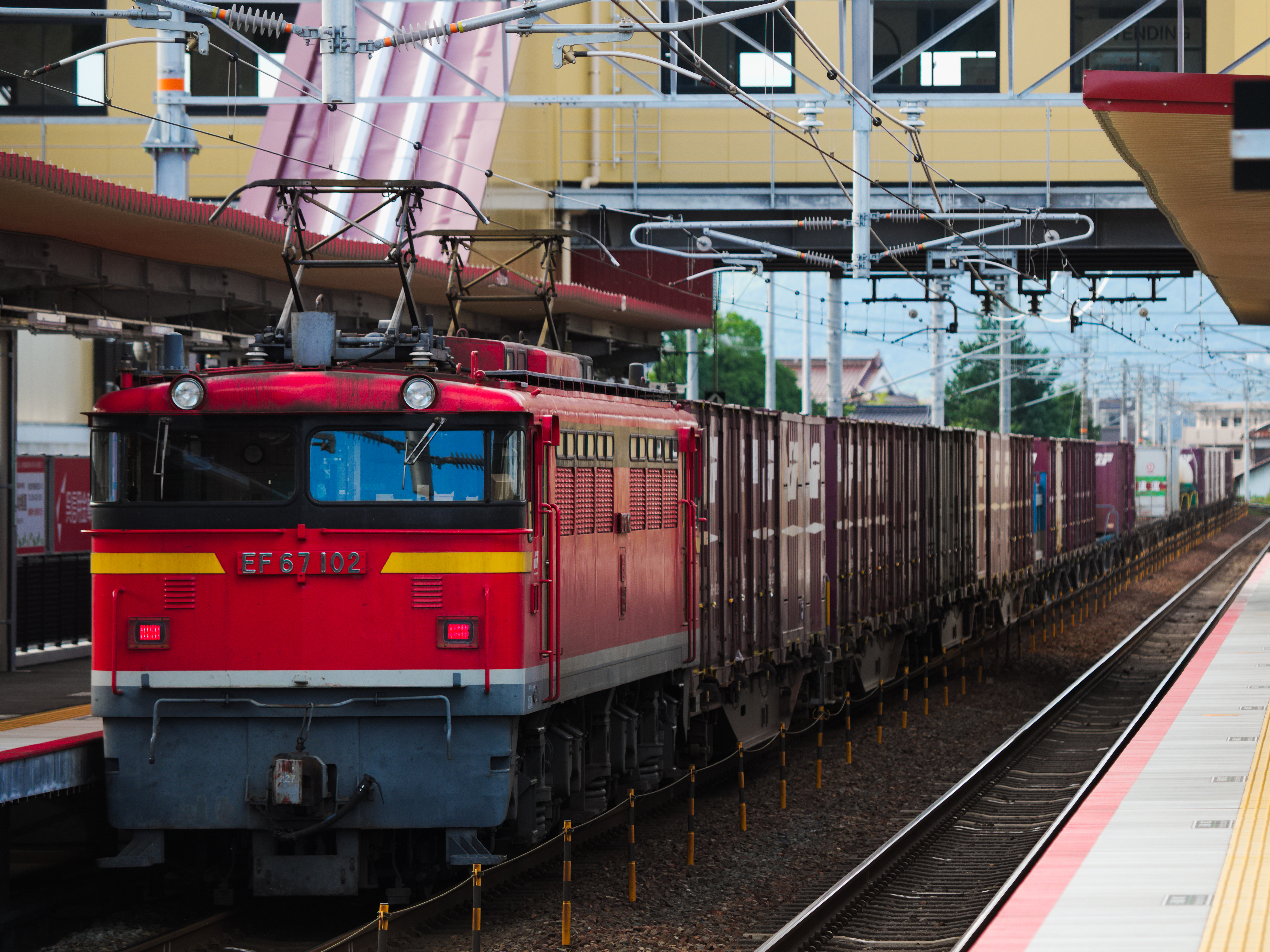 JR Freight Class EF67-100 electric locomotive EF67 102 banking a freight train at Hachihommatsu Station in Hiroshima Prefecture, Japan